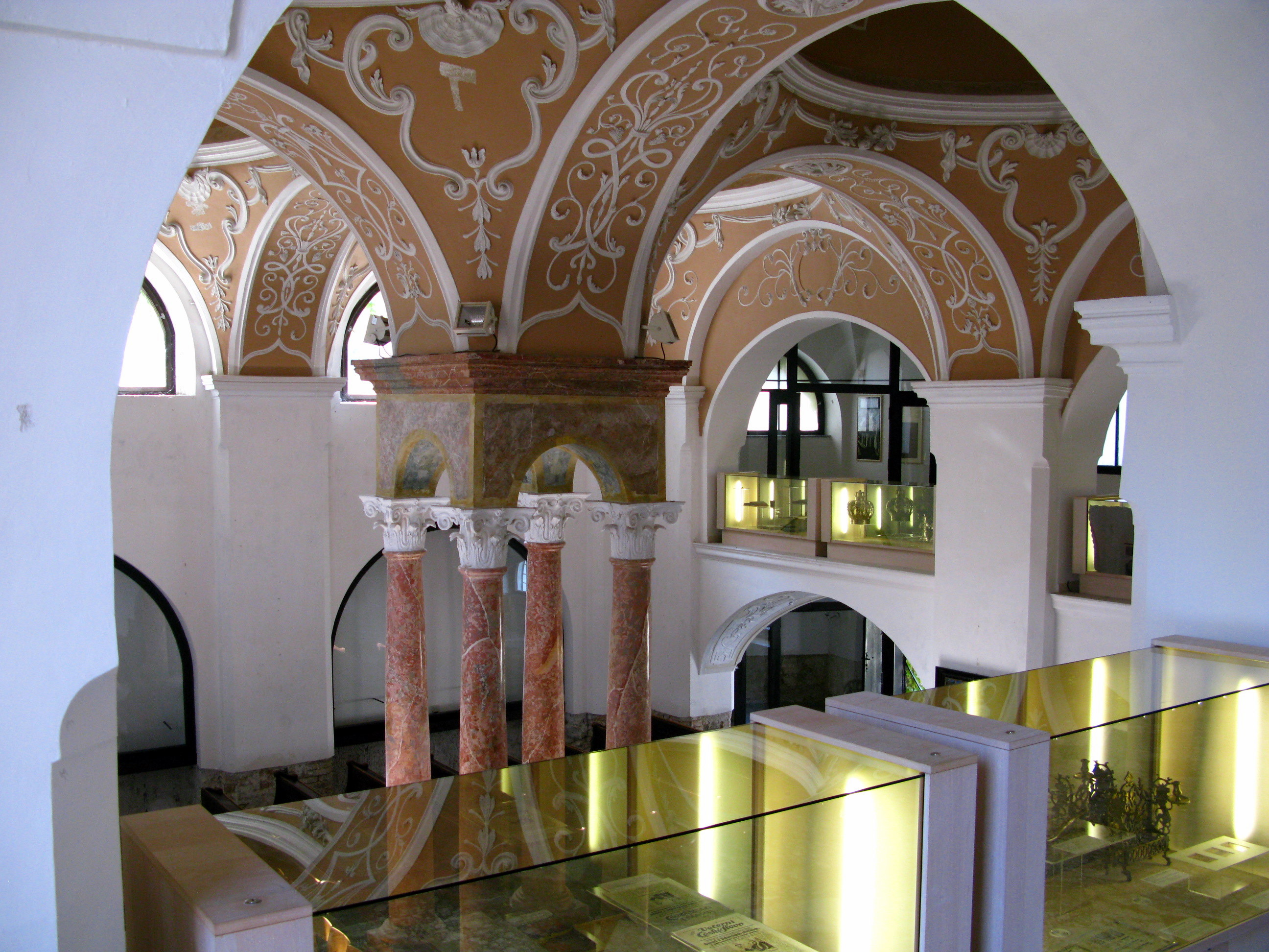 Upper Synagogue of the Jewish community in Mikulov in Moravia / Czech Republic / EU. Currently, the synagogue is a museum.